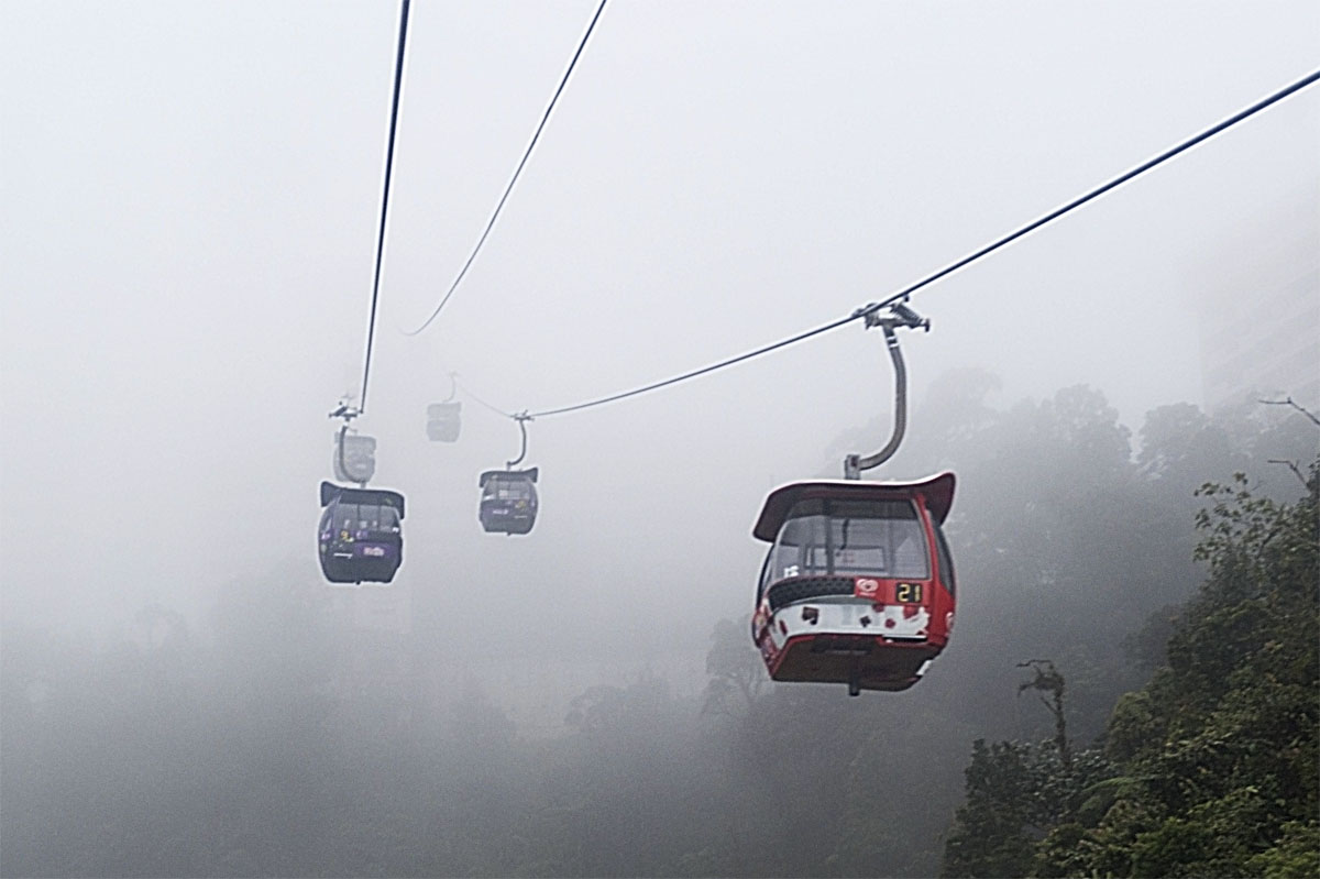 The Genting Skyway to the summit of Genting Highlands, Pahang, Malaysia